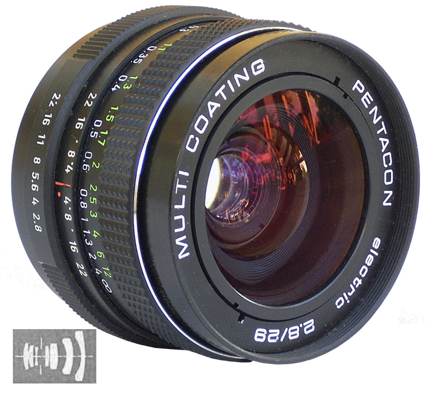 Pentacon electric 2,8/29mm MC lens